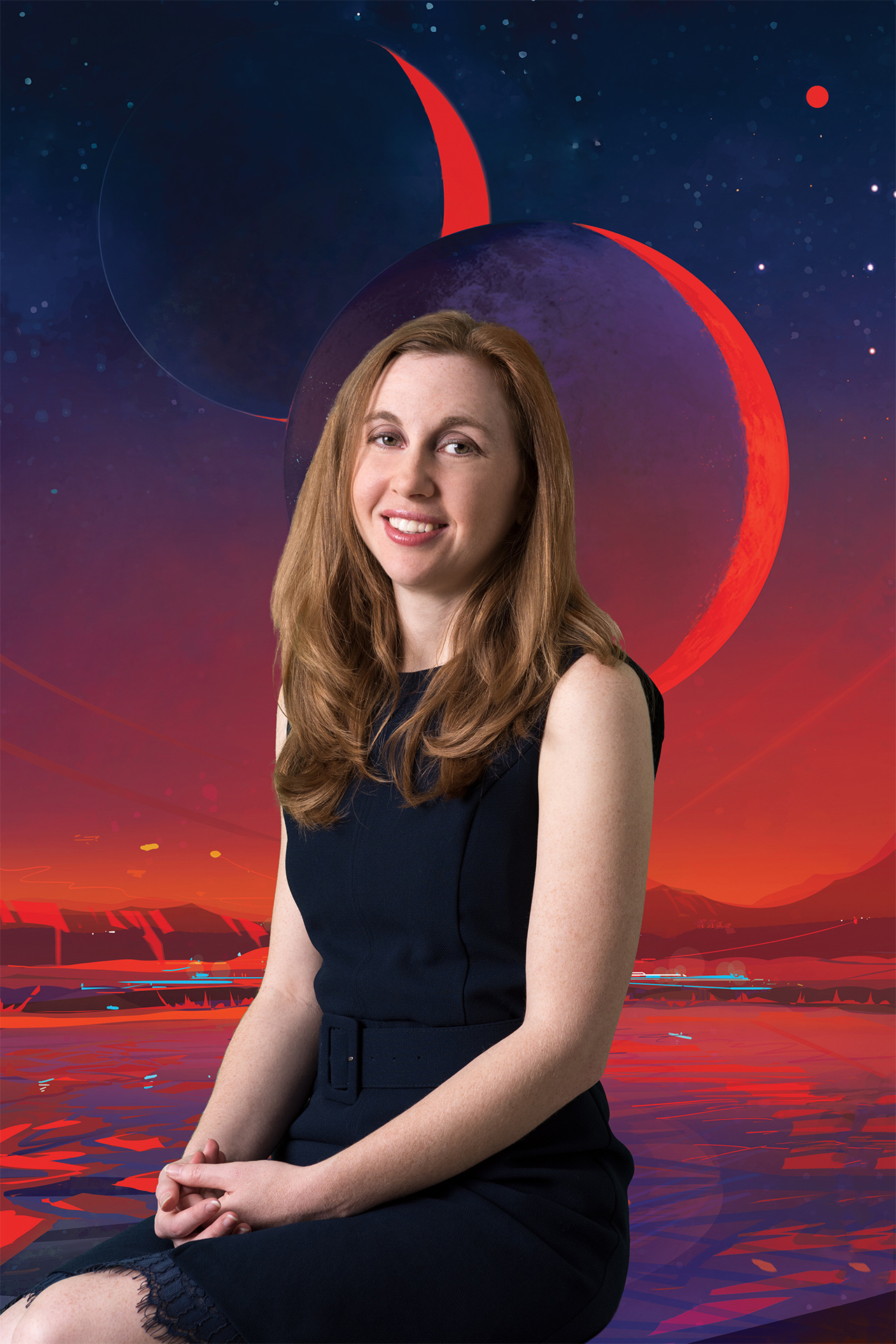 Elizabeth Landau is the senior storyteller in the Web Studio at JPL. She leads the creation of multimedia content packages and writes in-depth articles for NASA’s Exoplanet Exploration and Solar System Exploration websites. She was previously JPL’s media relations specialist for astrophysics. Prior to joining NASA's JPL in 2014, Ms. Landau was a writer/producer at CNN Digital in Atlanta, Georgia, where she spearheaded the CNN Light Years science blog and covered space news extensively.